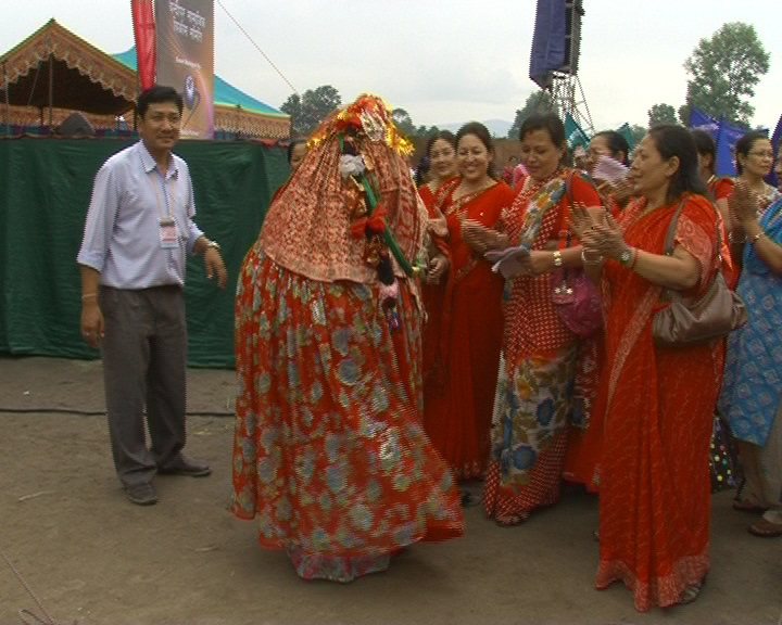 Performing Doko(Basket) Dance